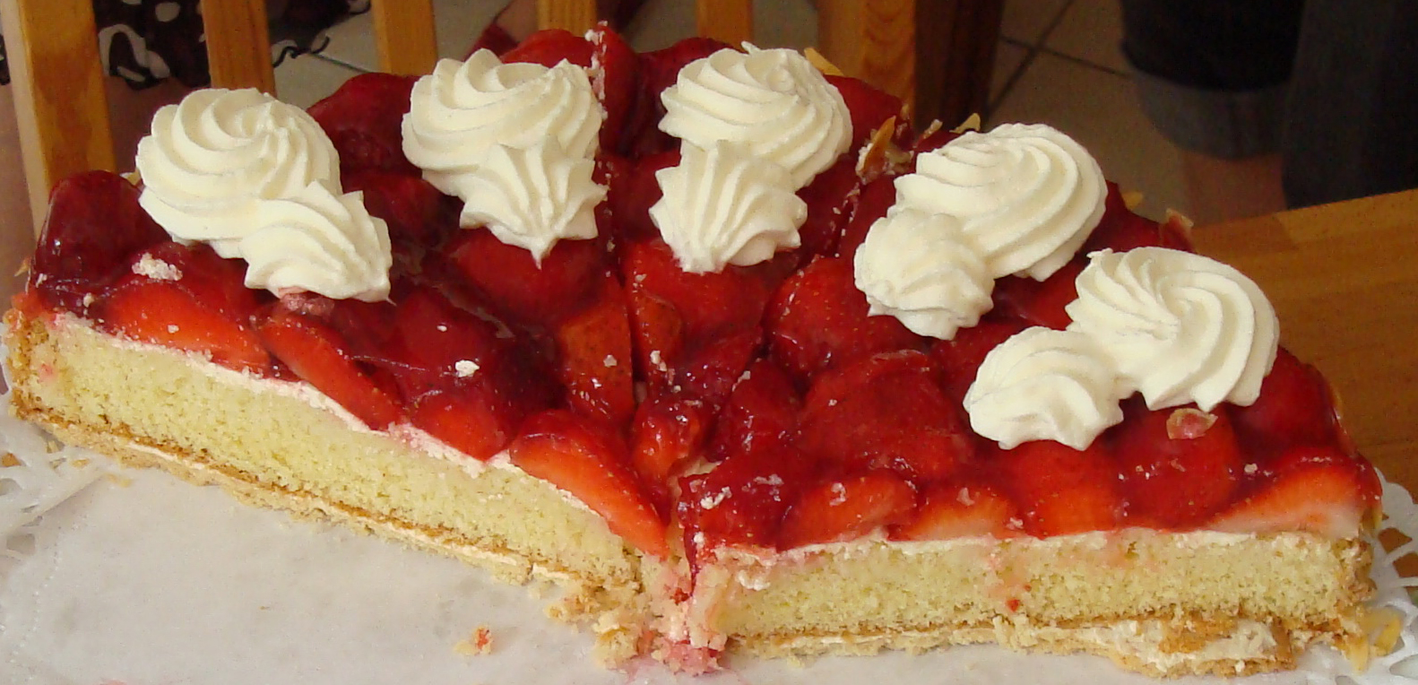 Strawberry pie